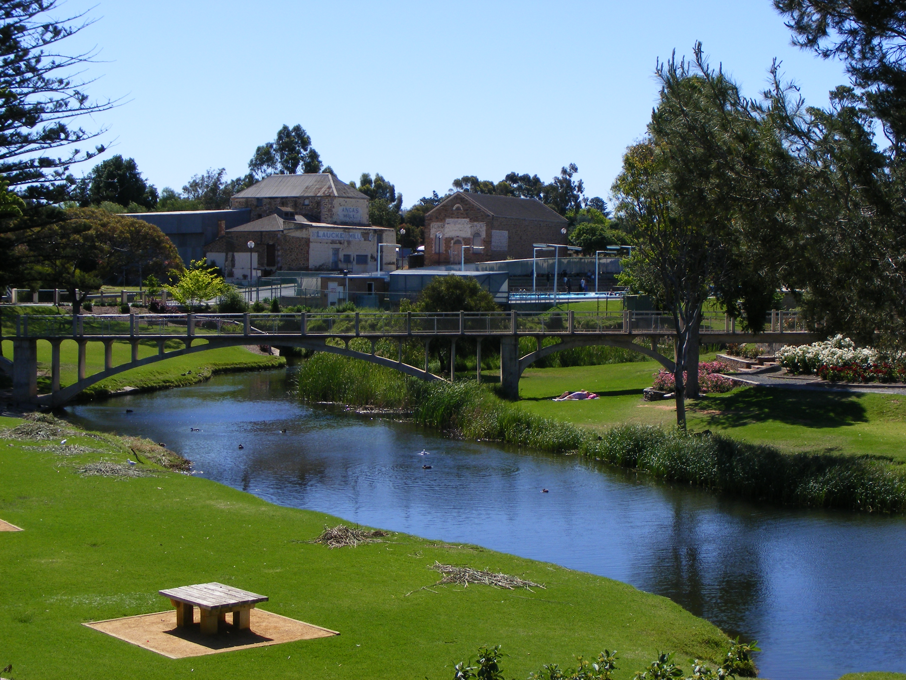 Soldier's memorial gardens at Strathalbyn, South Australia